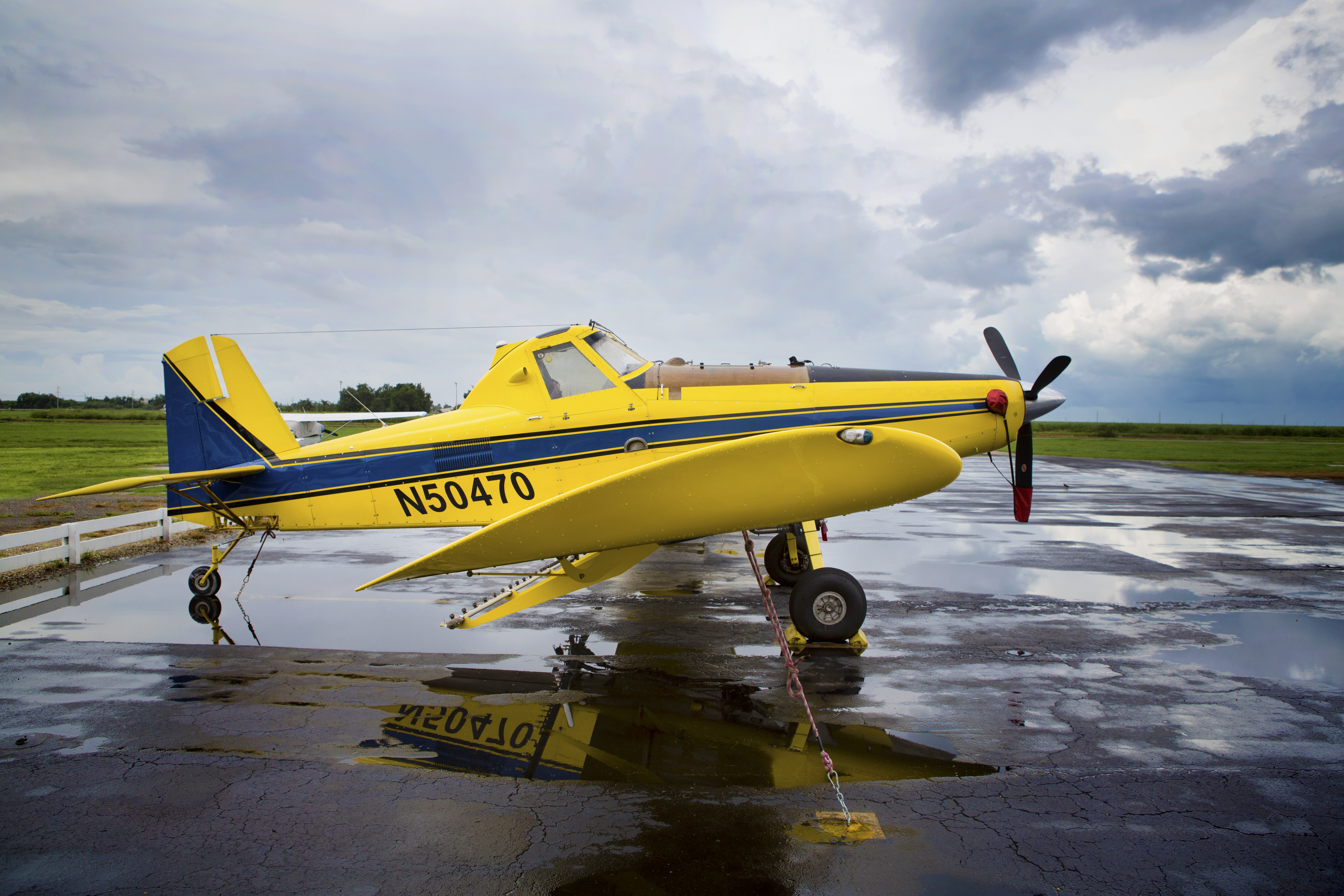 Air Tractor AT-502B crop dusting aircraft on the ramp at Belle Glade Airport, Florida as weather moves in off Lake Okeechobee. Aircraft is shown in profile. The single-engine aircraft has a 52-foot wingspan, three wheels. It was first manufactured in 1987.